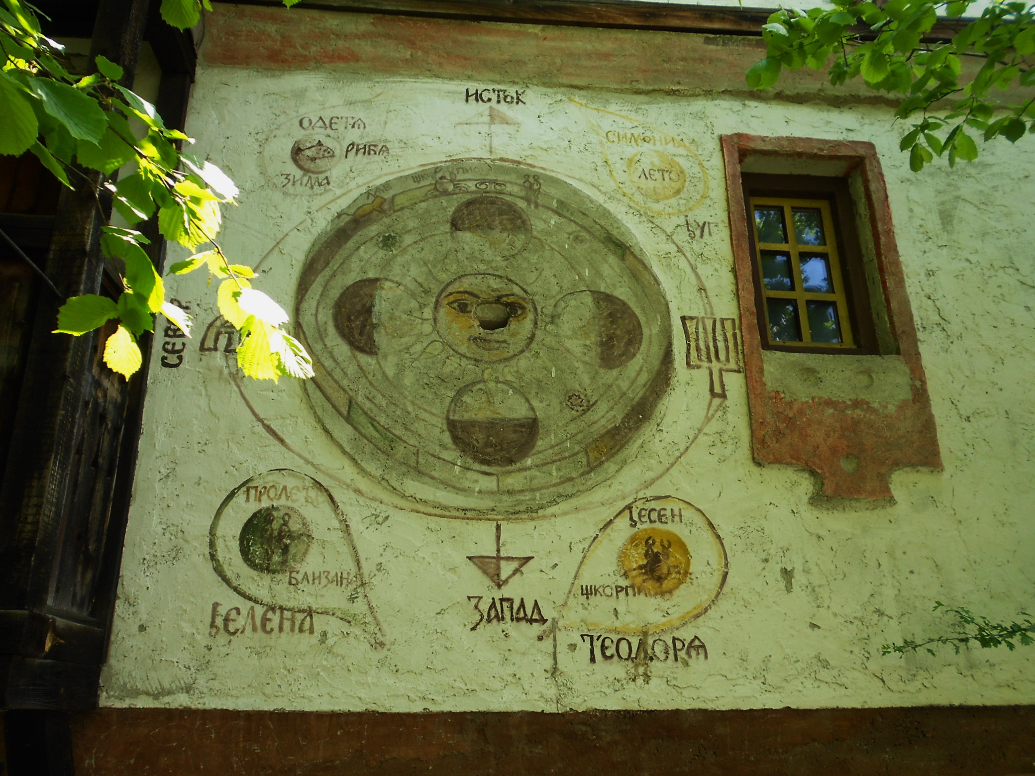 Atelier of famous Serbian painter and architect, Milić Stanković, also known as Milić od Mačve. The atelier is located at Zlatibor mountains.